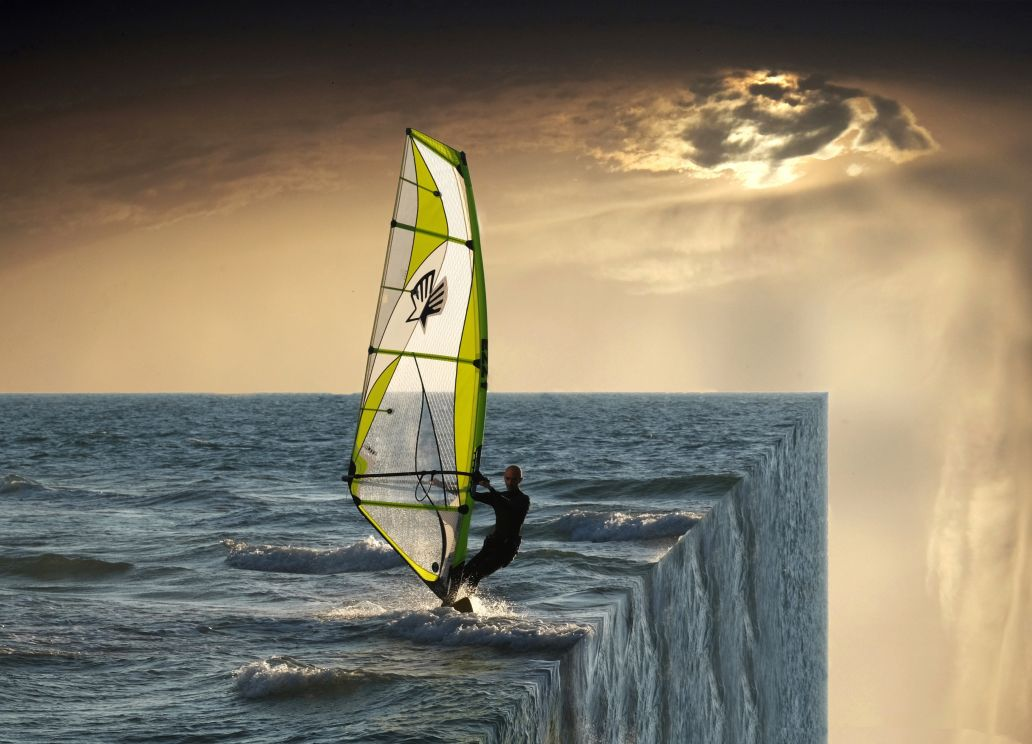 Perspective bending effect on a landscape shot of the ocean. Photo manipulation done using Adobe Photoshop.